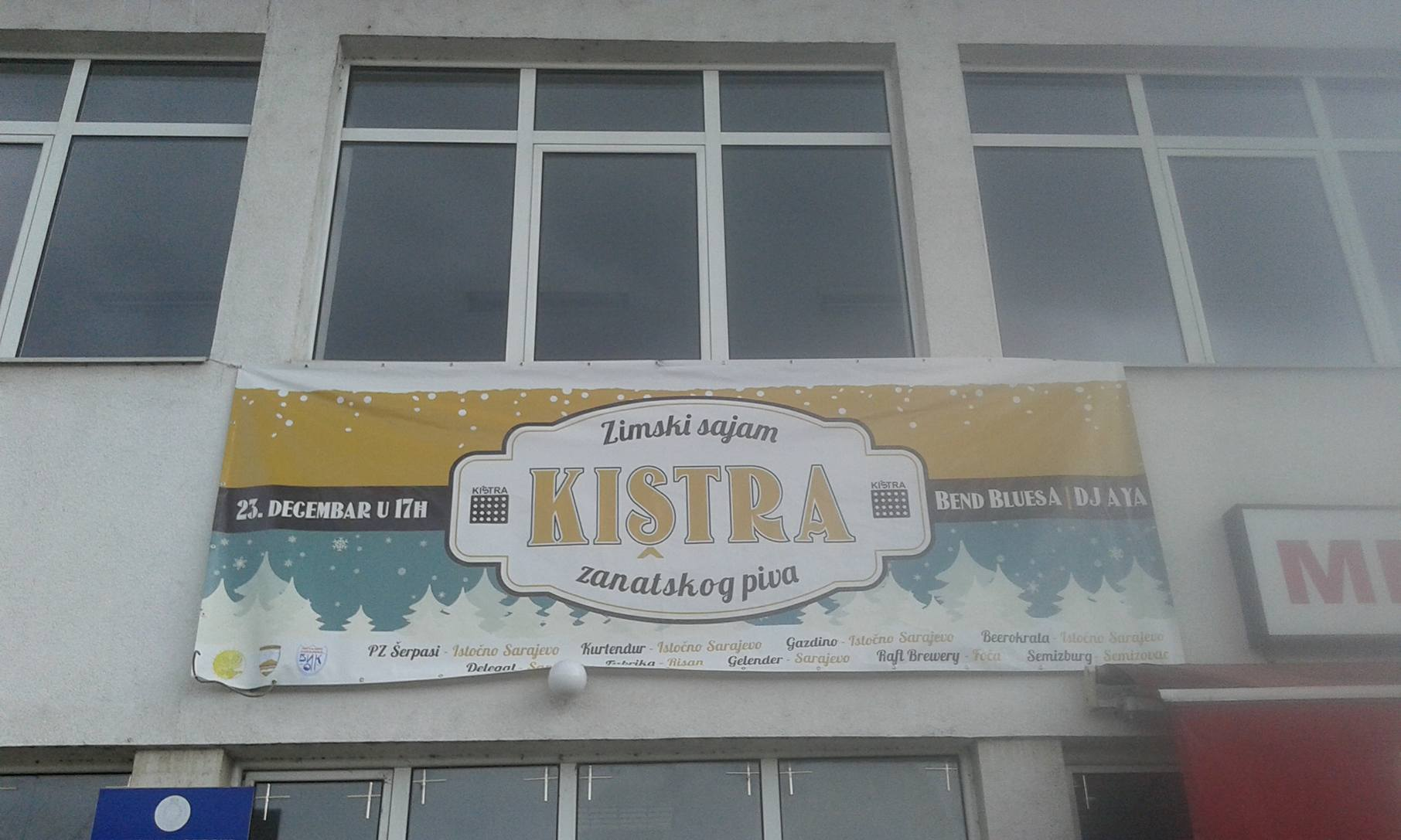 zimski sajam zanatskog piva Kistra 2017